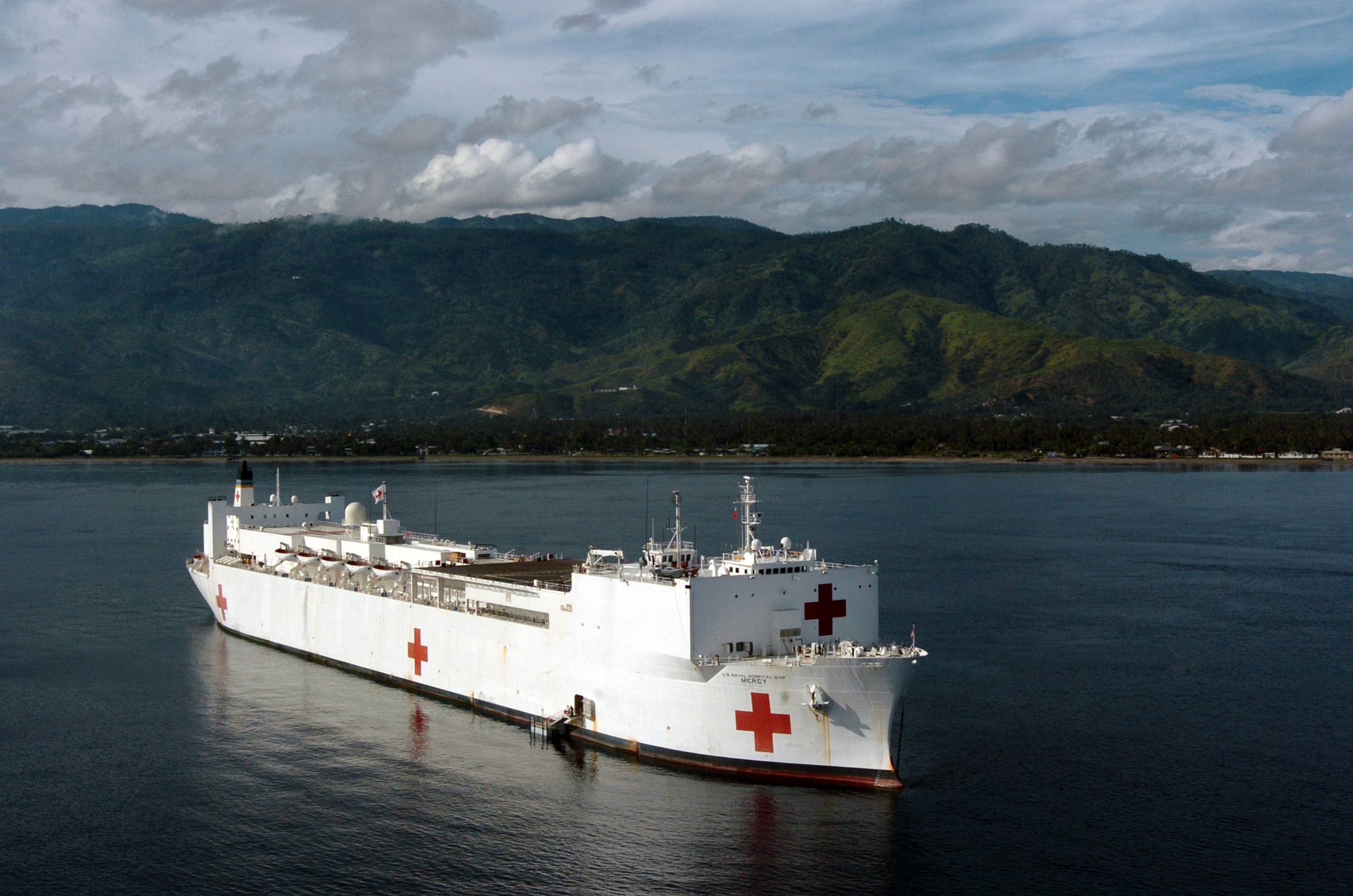 Dili, East Timor (Mar. 29, 2005) - The Military Sealift Command (MSC) hospital ship USNS Mercy (T-AH 19) shown off the coast of Dili, East Timor. Mercy deployed to the region to provide humanitarian assistance and focused medical care to thousands of people displaced by a magnitude 7.3 earthquake that struck Nov. 11, 2004. While ashore, Mercy’s crew will focus on public health, primary care, dental treatment, preventive medicine, health education and pharmaceutical support. Mercy’s deployment is part of the U.S. commitment to Southeast Asia and the Pacific Island nations. U.S. Navy photo by Photographer's Mate 3rd Class Rebecca J. Moat (RELEASED)